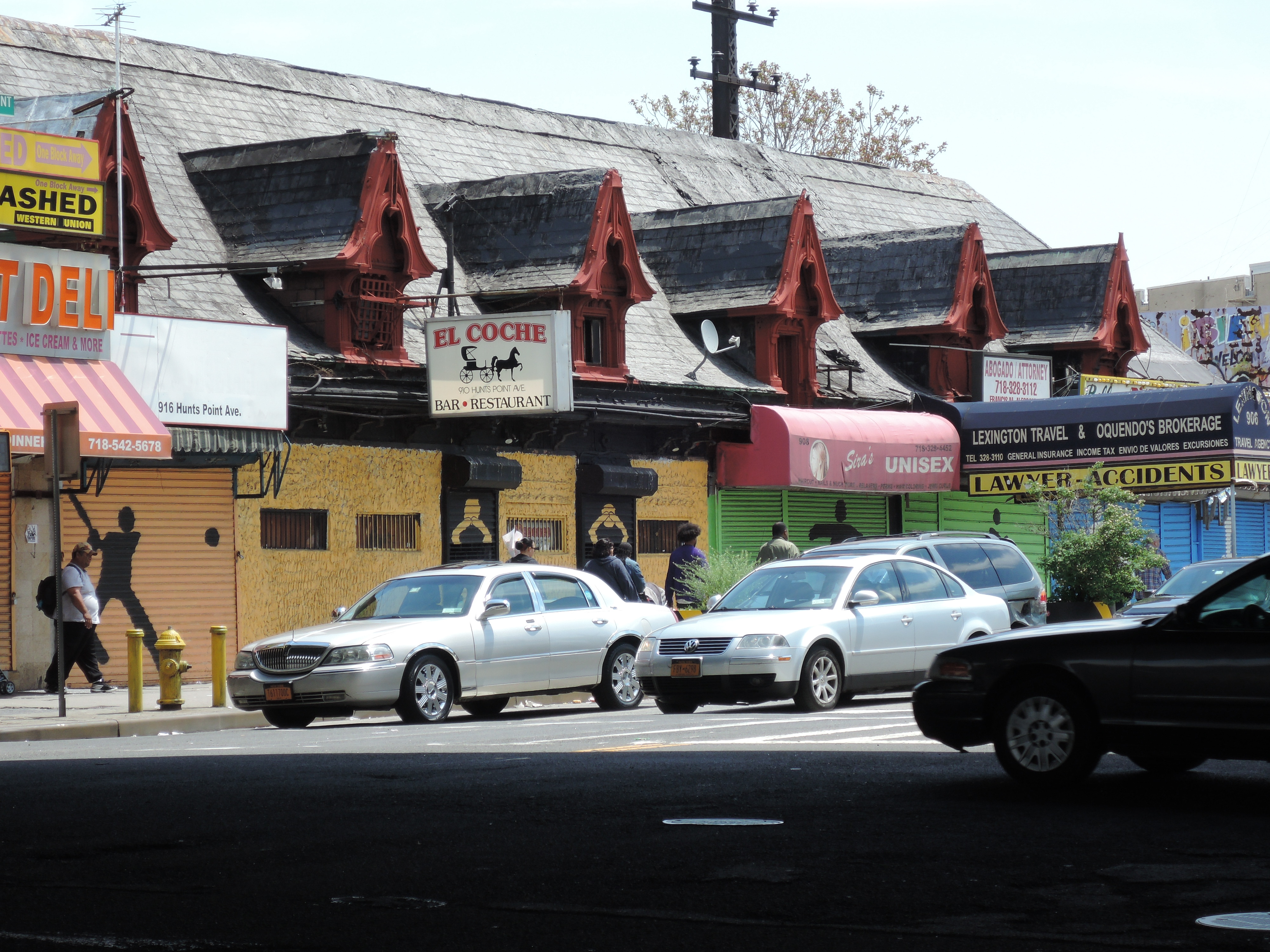 Looking east, zoomed, from under Bruckner Expressway at station now serving shops.